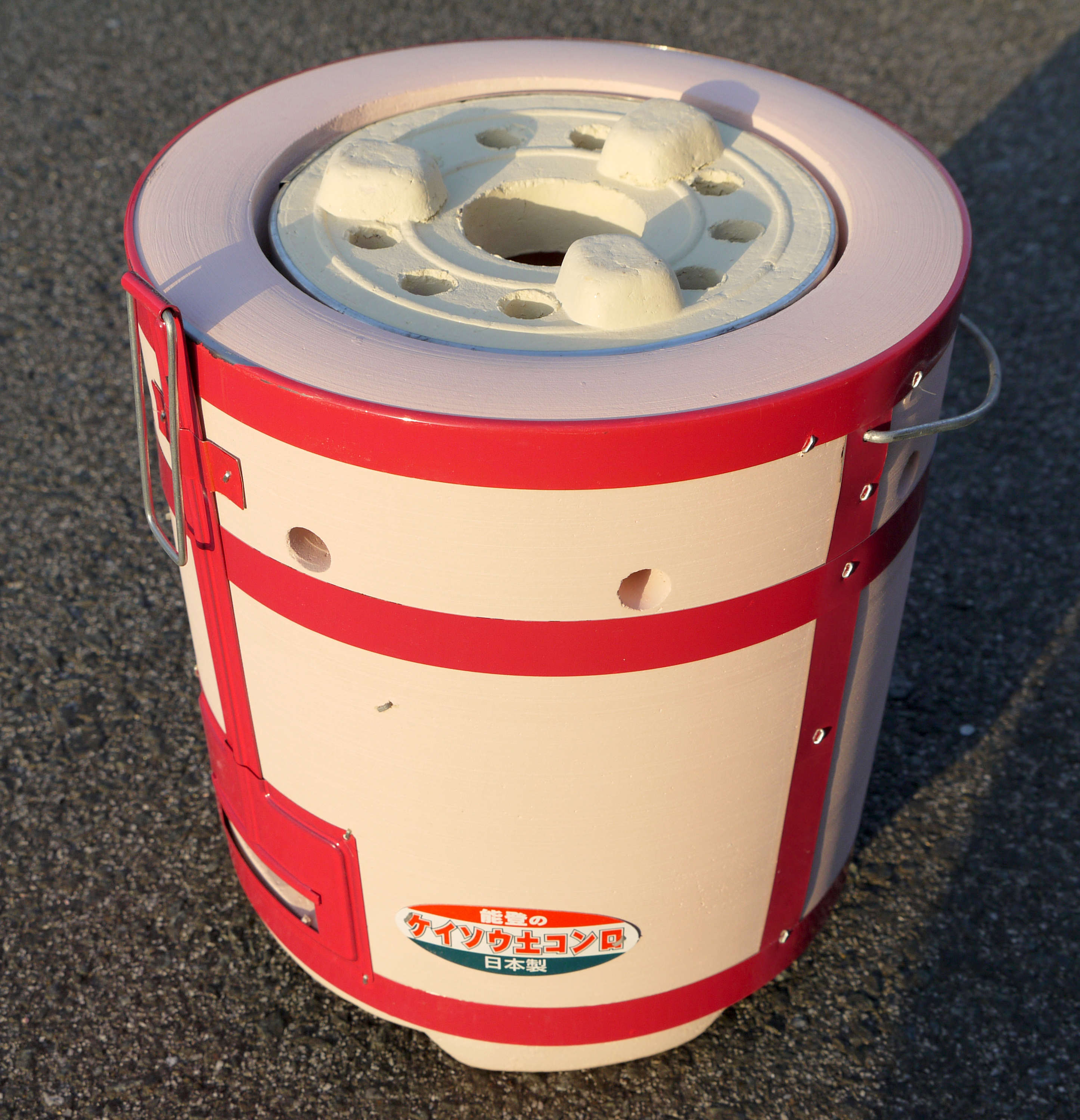 Japanese Rentan Portable Stove